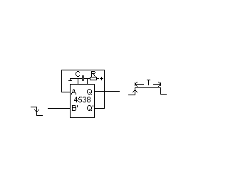 Monostable multivibrator